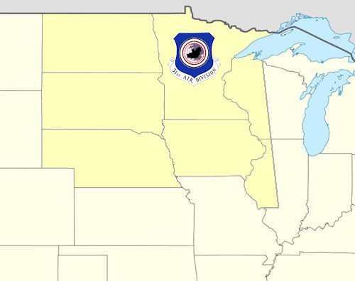 Map of the 30th Air Division - 1950-1960